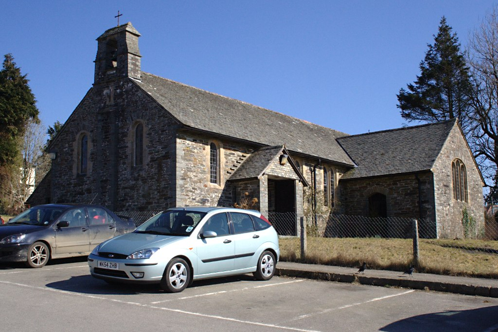 The Church of St. Thomas of Canterbury, Camelford. A small church by the car park.